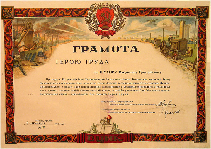 Hero of Soviet Labor certificate